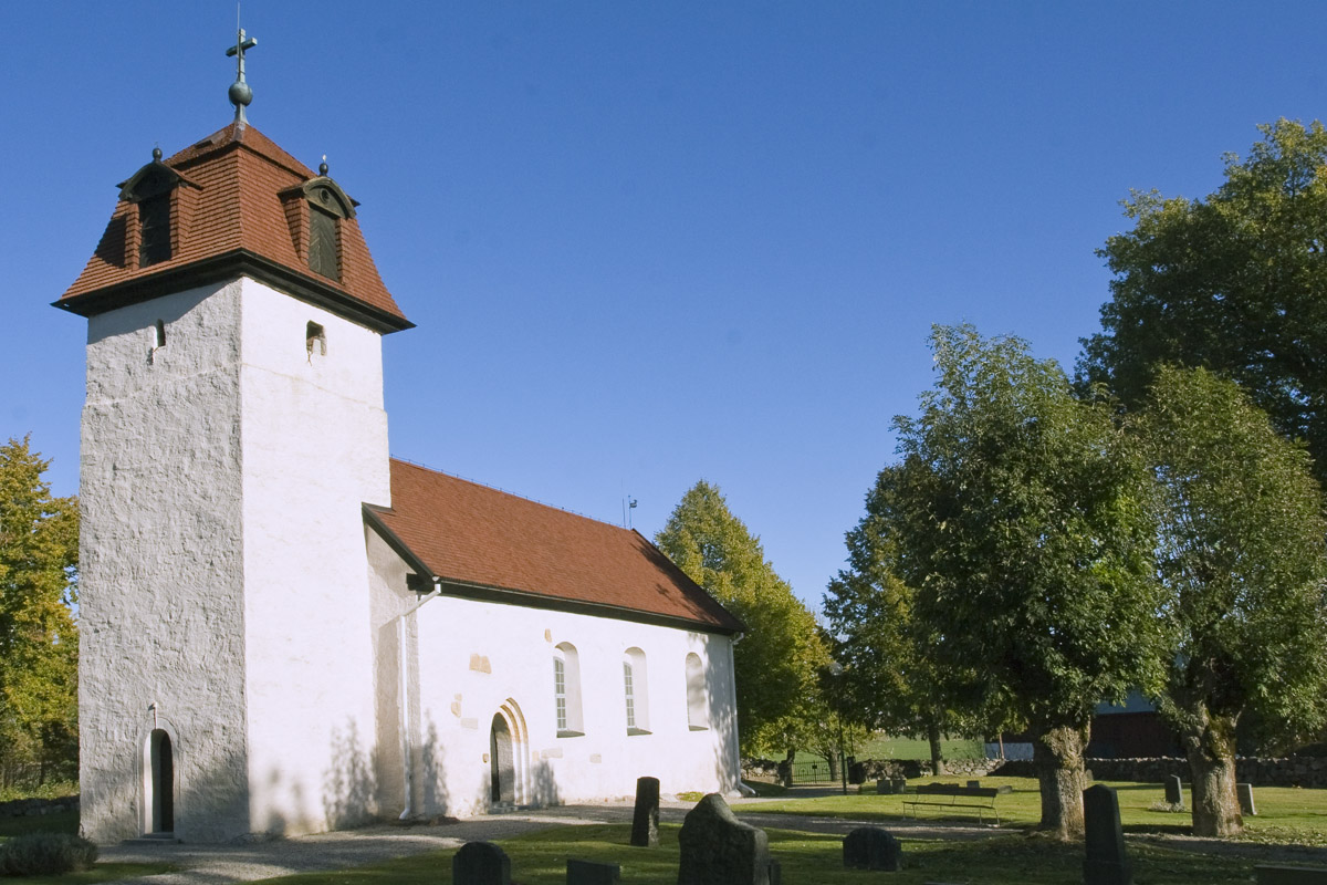 Church Hammarby Eskiltuna